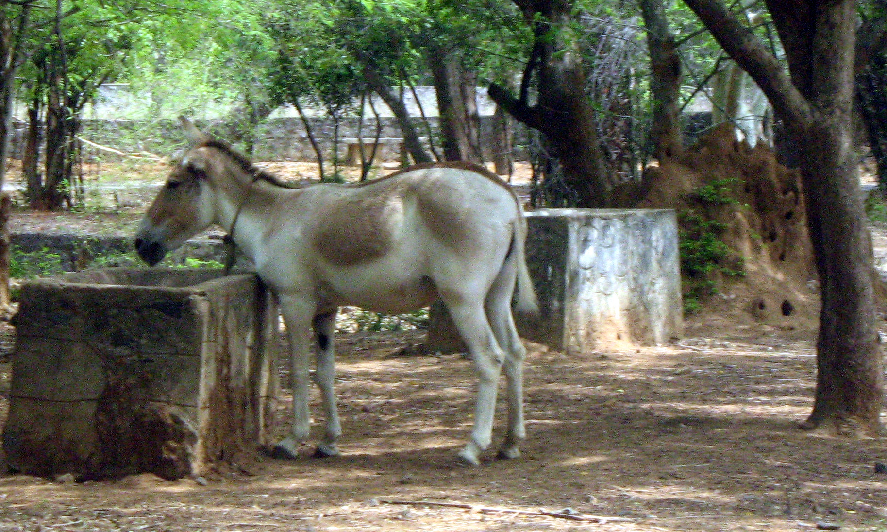 Indian subcontinent ass, Tamil Nadu, India